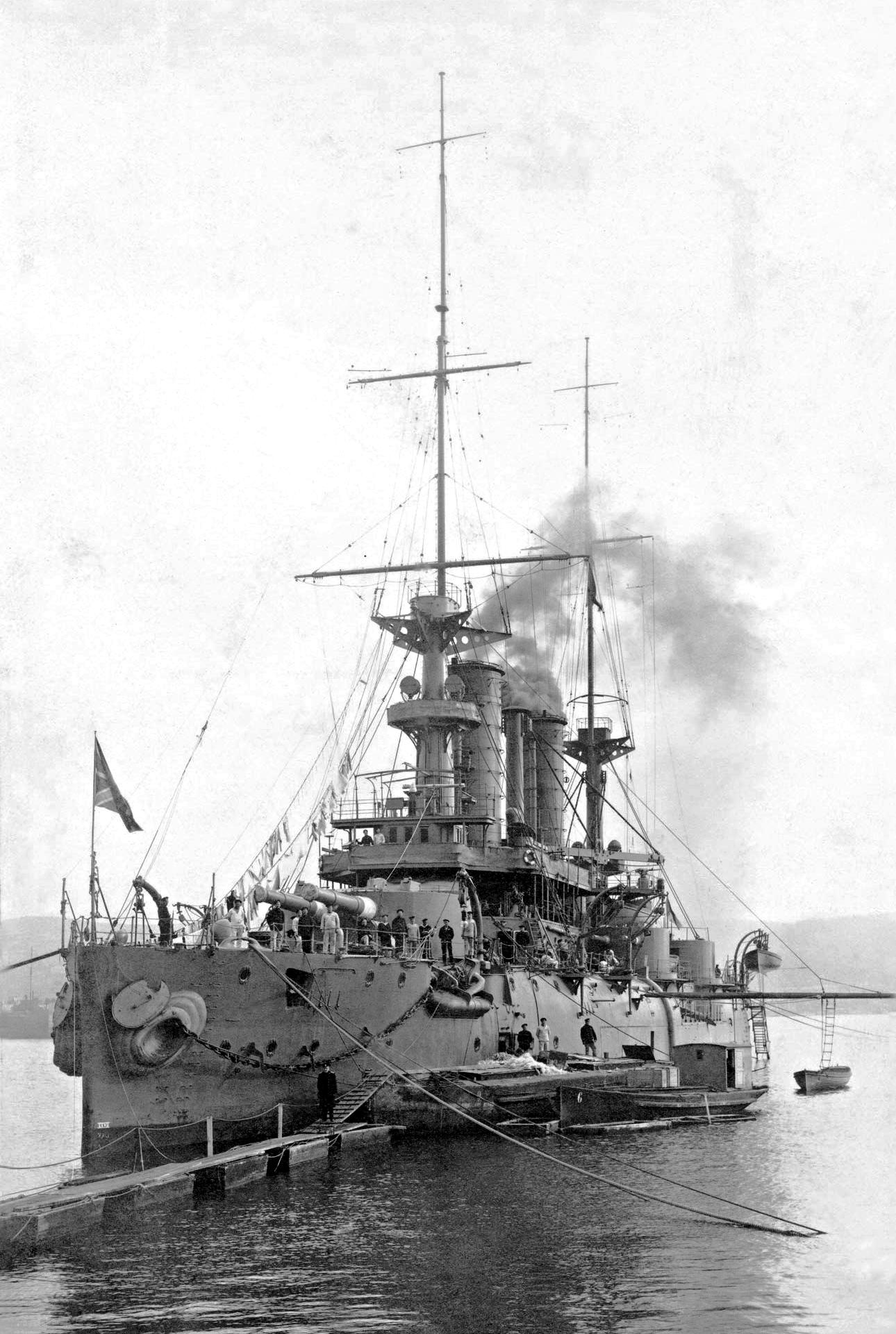 Imperial Russian battleship Chesma in Vladivostok, 1916.